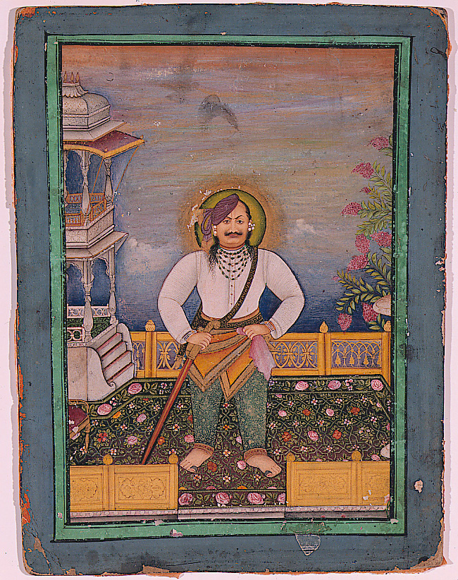 Creation Date: ca. 1845 Display Dimensions: 11 1/2 in. x 8 1/2 in. (29.2 cm x 21.6 cm) Credit Line: Edwin Binney 3rd Collection Accession Number: 1990.980 Collection: The San Diego Museum of Art